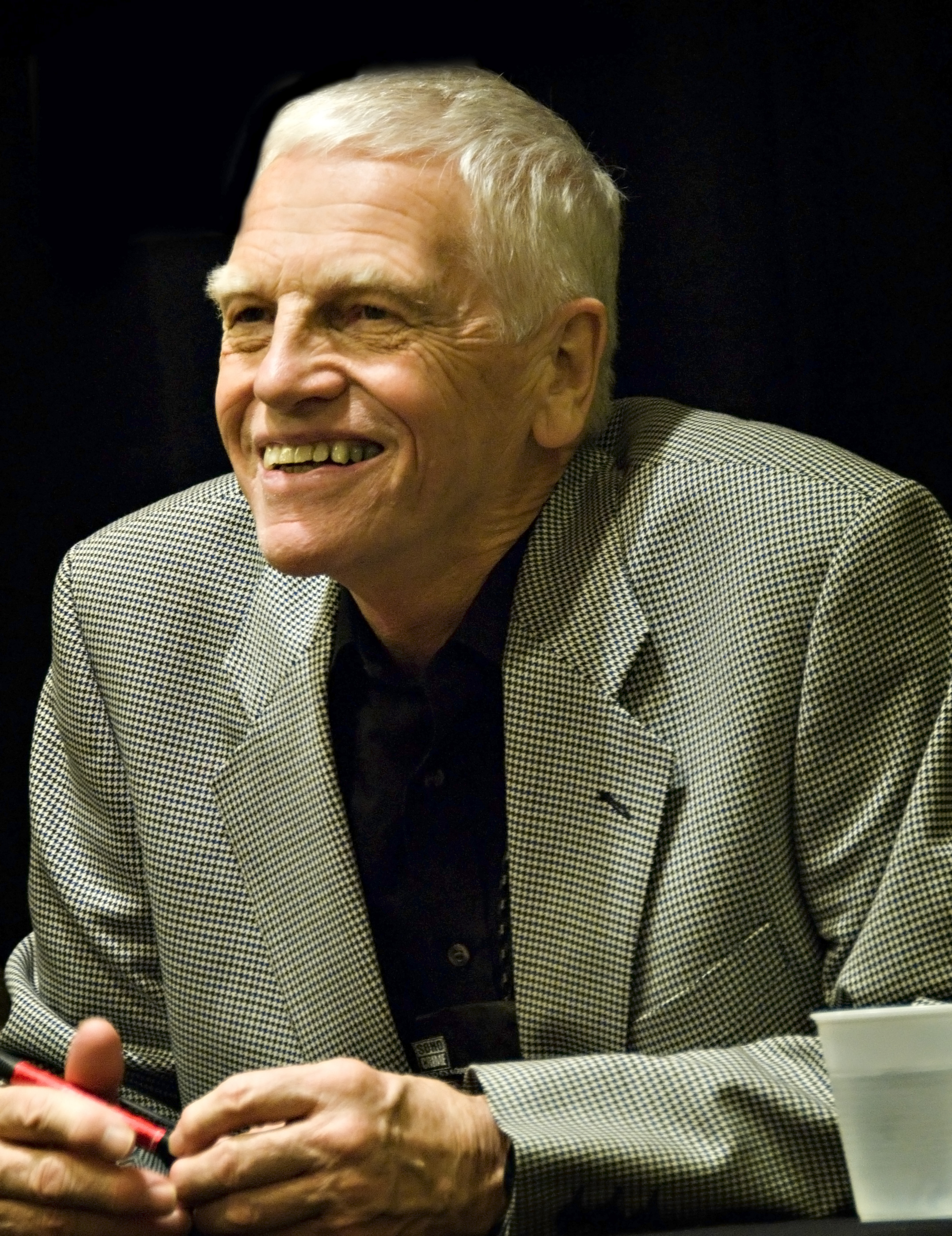 Peter Lovesey signing at Bouchercon 2009 in Indianapolis, Indiana.